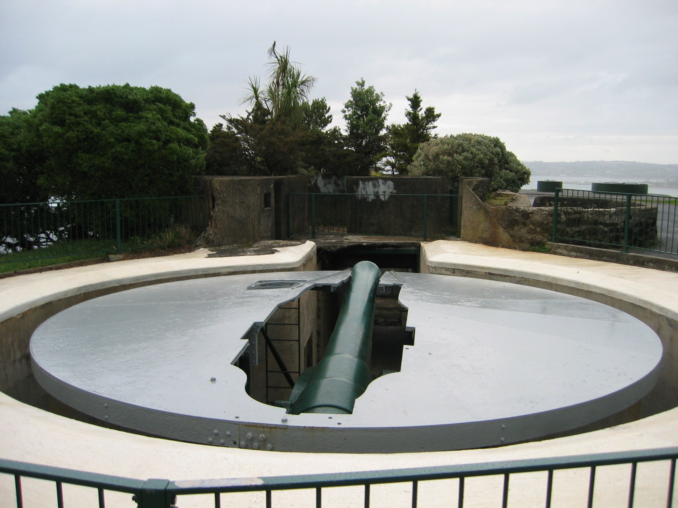 BL 8 inch Mk VII Disappearing gun installed atop Mount Victoria, Auckland, New Zealand.